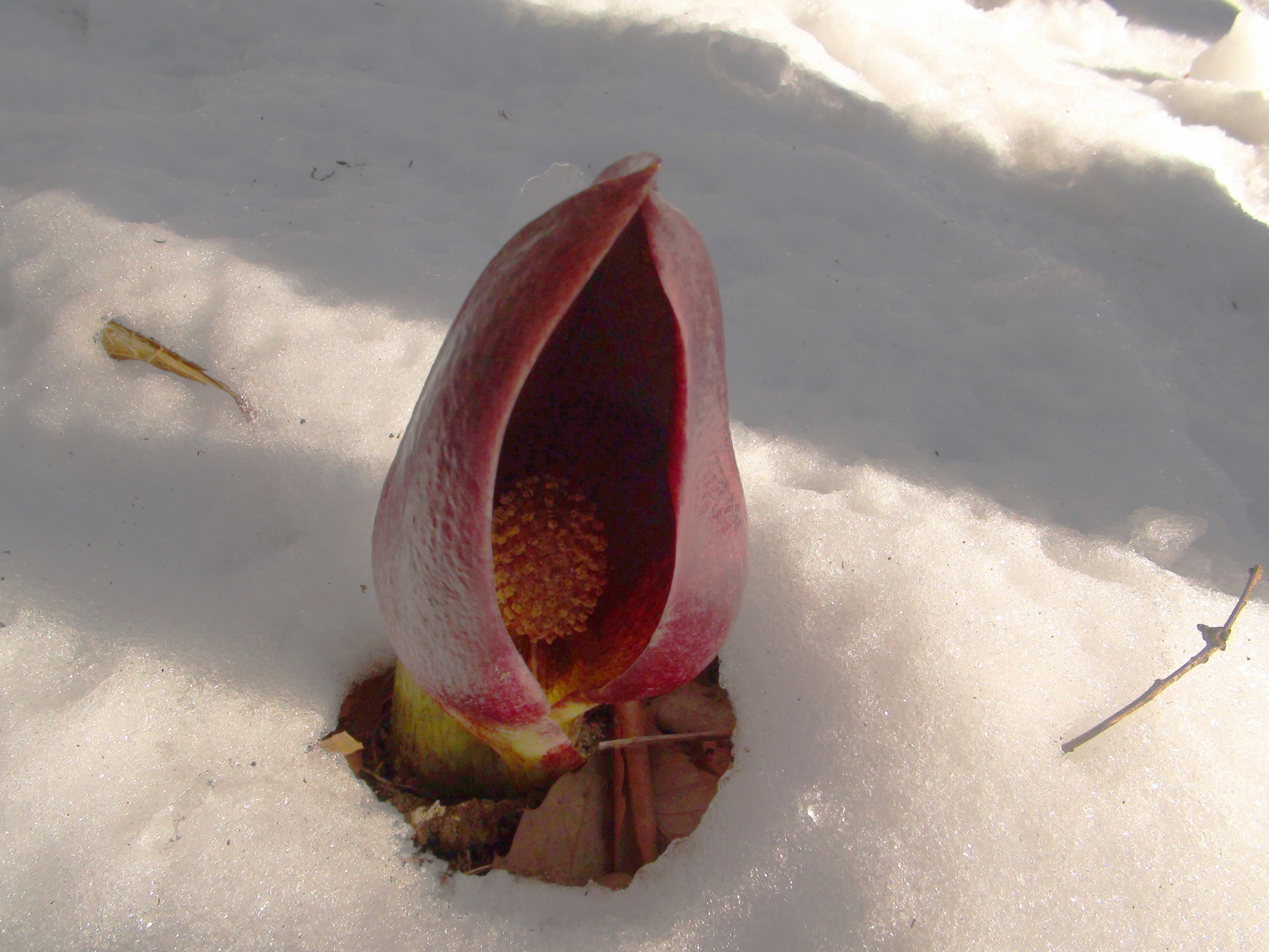 Eastern Skunk Cabbage Takemori Koshu-City